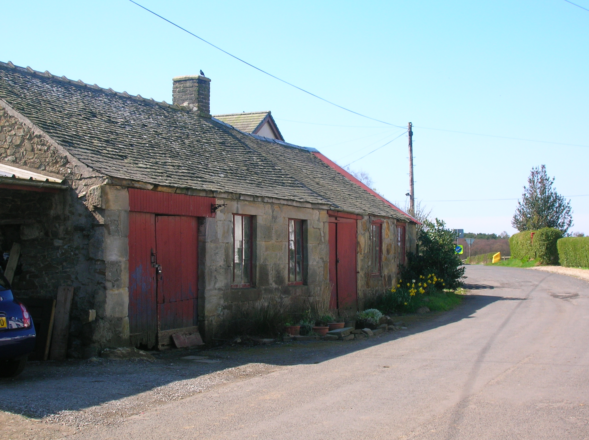 The Old schoolhouse in Auchentiber mainstreet, East Ayrshire, Scotland. Roger Griffith. April 2007.(This is the old schoolhouse,the smiddy is directly opposite)